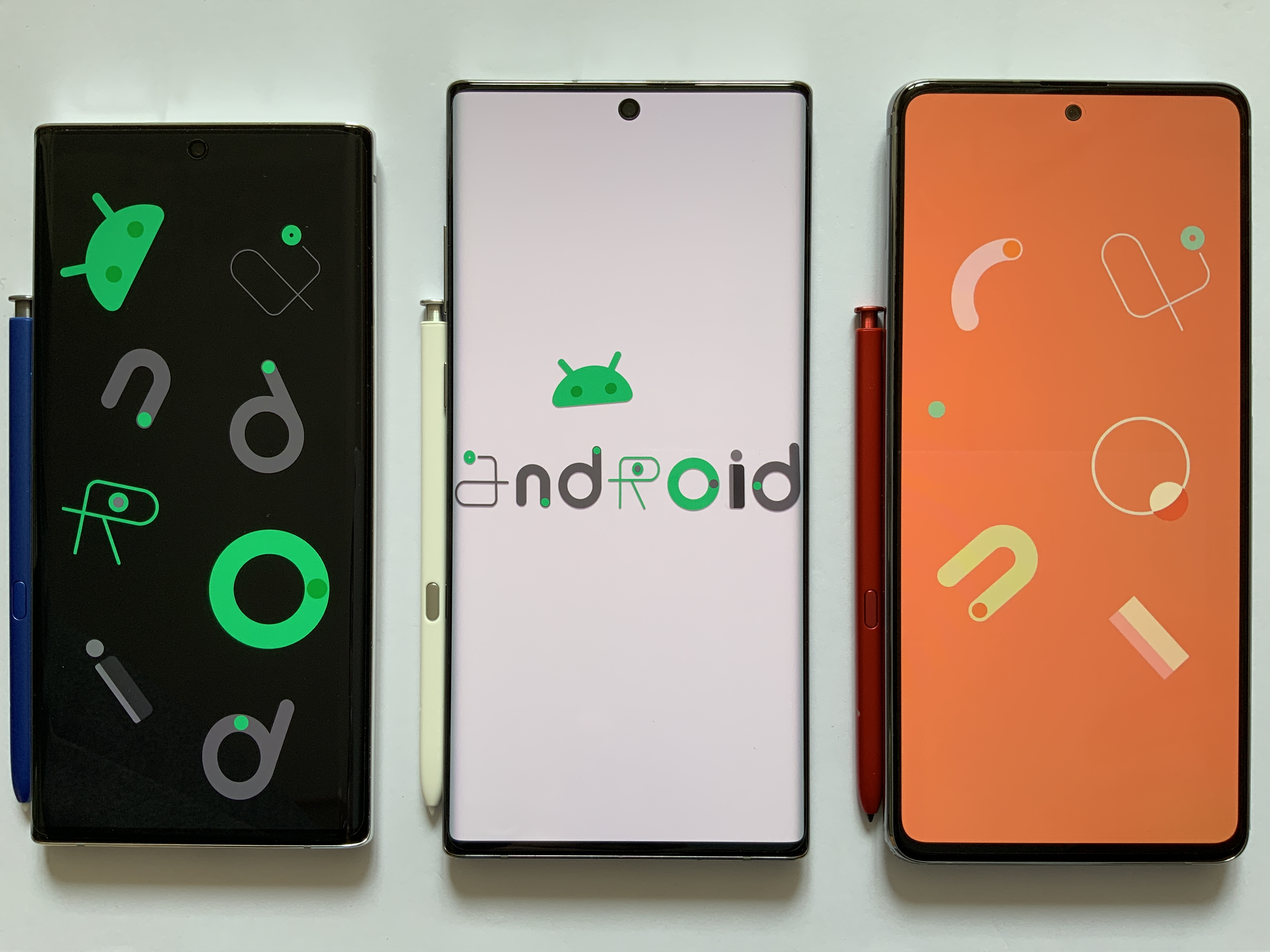 SAMSUNG Galaxy Note10 SAMSUNG Galaxy Note10+ SAMSUNG Galaxy Note10 Lite